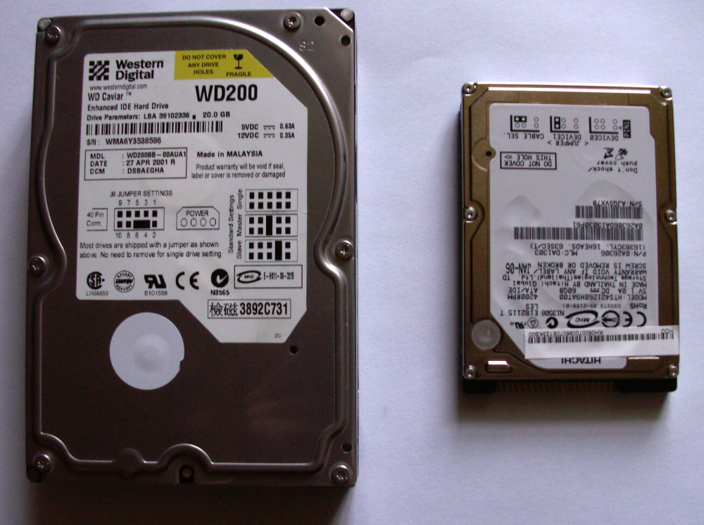 Hard discs: 3,5" (on left) and 2,5" (on right)